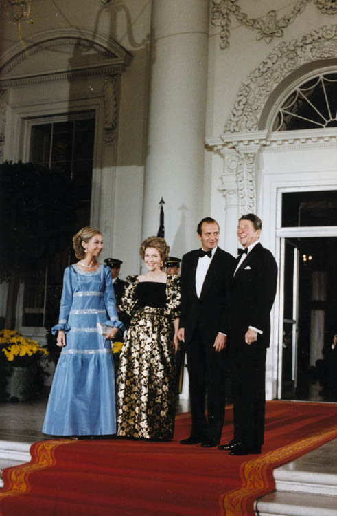 President Reagan and Mrs. Reagan greet King Juan Carlos I and Queen Sophia of Spain for the State Dinner, October 13th, 1981.